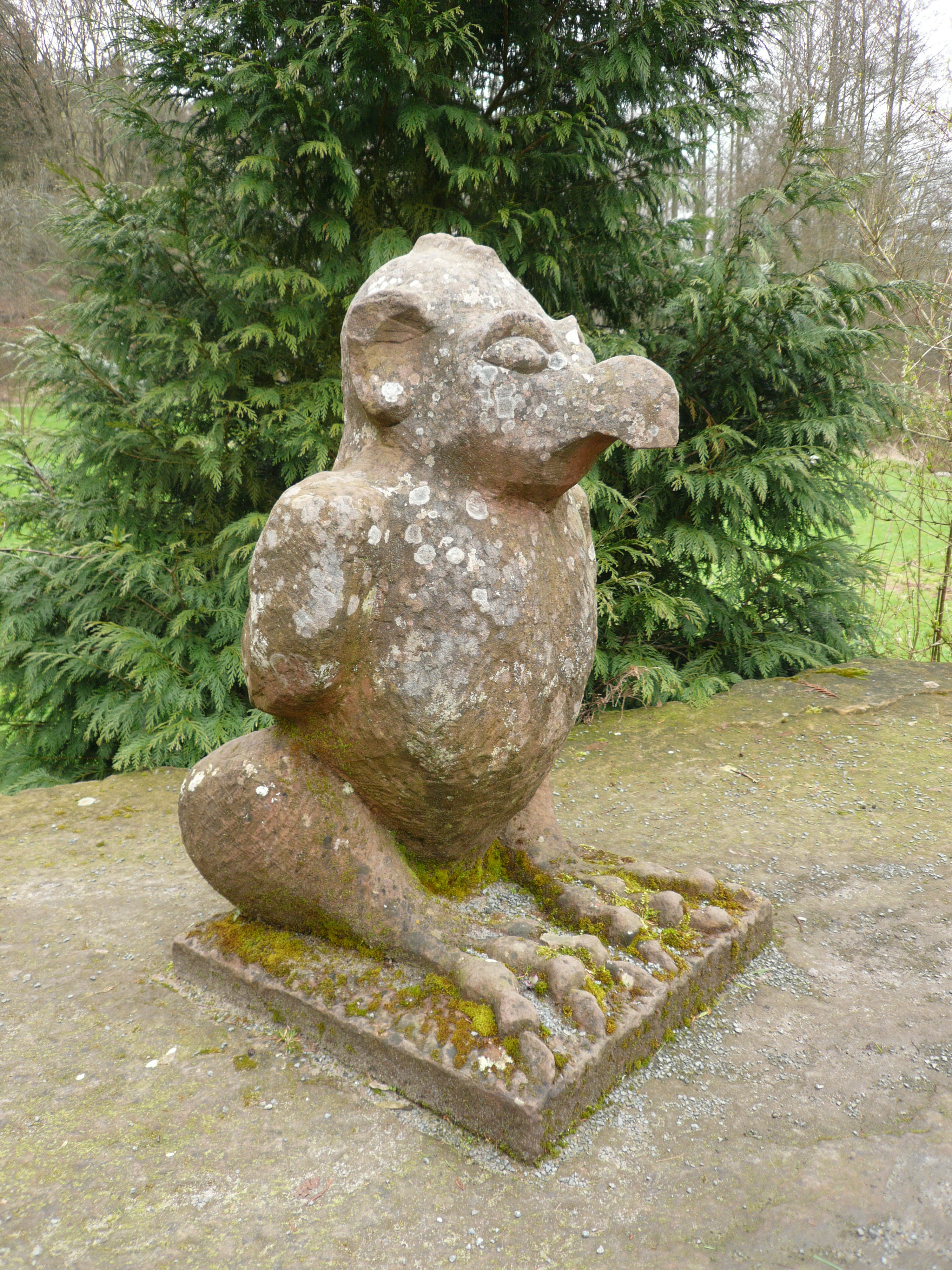 Statue of an Elwetritsch (a mythological animal)